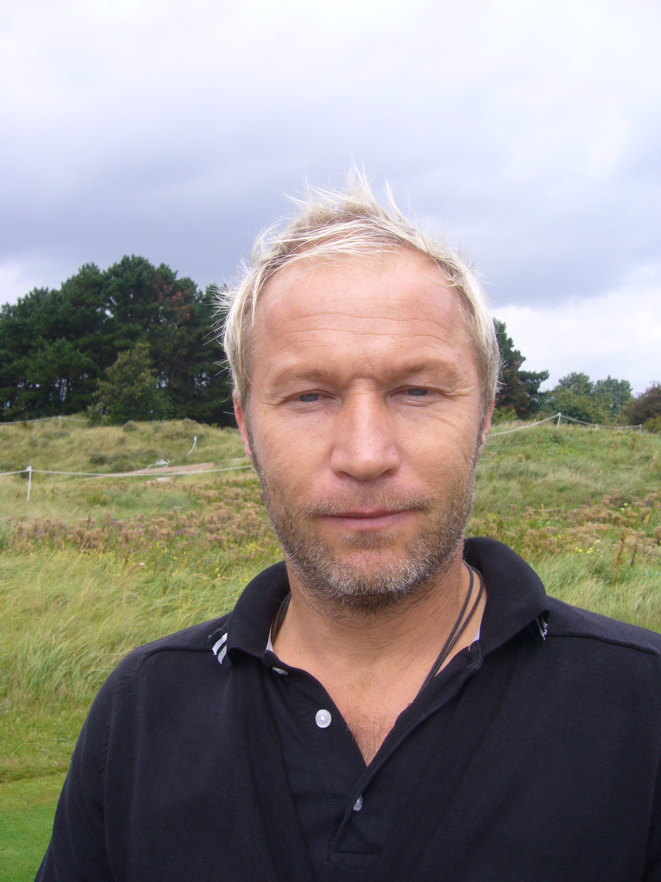 Per-Ulrik Johansson, Swedish golfprofessional